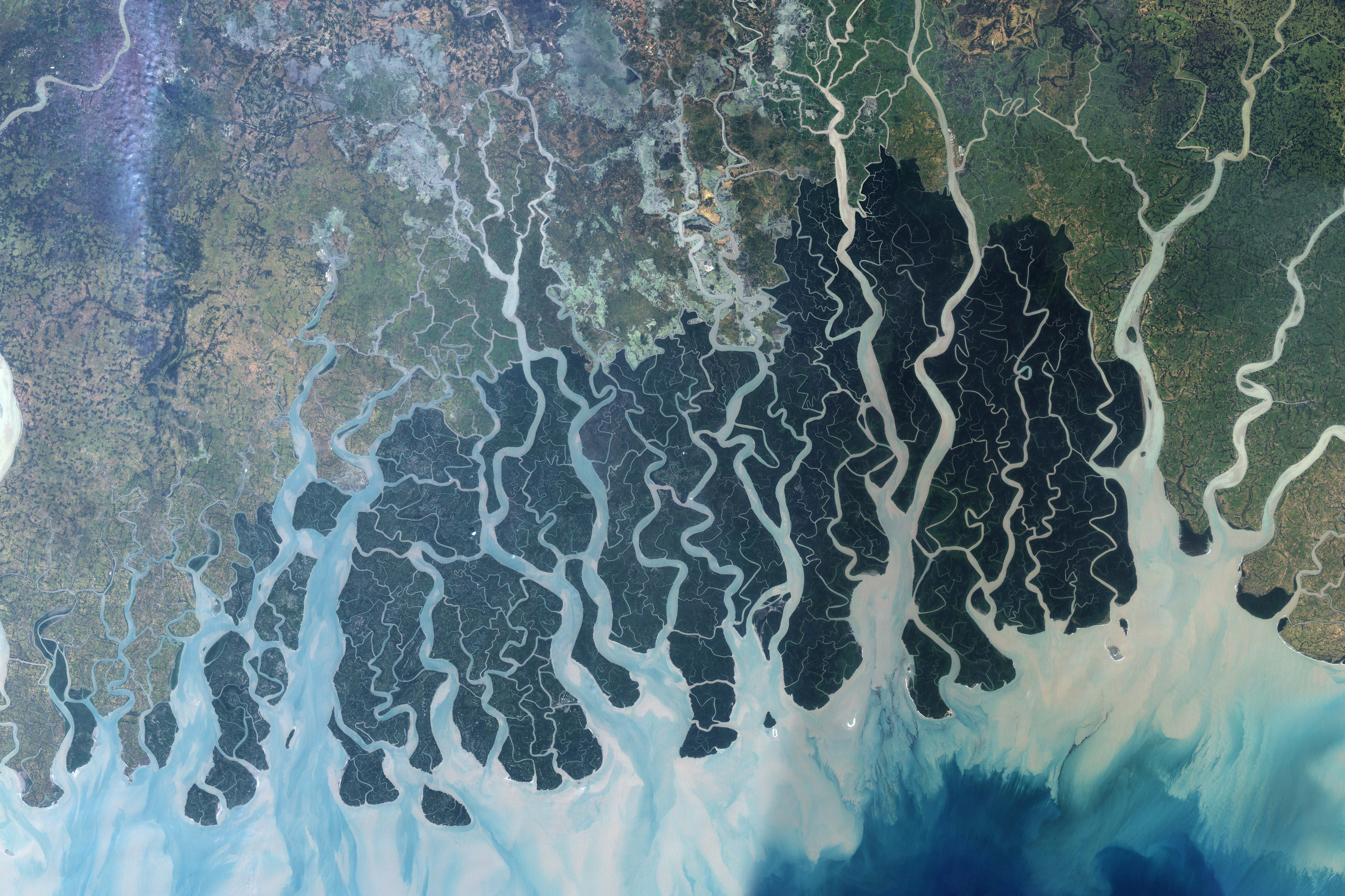 This NASA satellite image was created by merging Landsat 7 satellite observations from November 24, 1999, and November 17 and 26, 2000. It shows the forest in the protected area. The Sundarbans appears deep green, surrounded to the north by a landscape of agricultural lands, which appear lighter green, towns, which appear tan, and streams, which are blue. Ponds for shrimp aquaculture, especially in Bangladesh, sit right at the edge of the protected area, a potential problem for the water quality and biodiversity of the area. The forest may also be under stress from environmental disturbance occurring thousands of kilometers away, such as deforestation in the Himalaya Mountains far to the north. NASA image created by Jesse Allen, Earth Observatory, using data obtained from the University of Maryland’s Global Land Cover Facility.